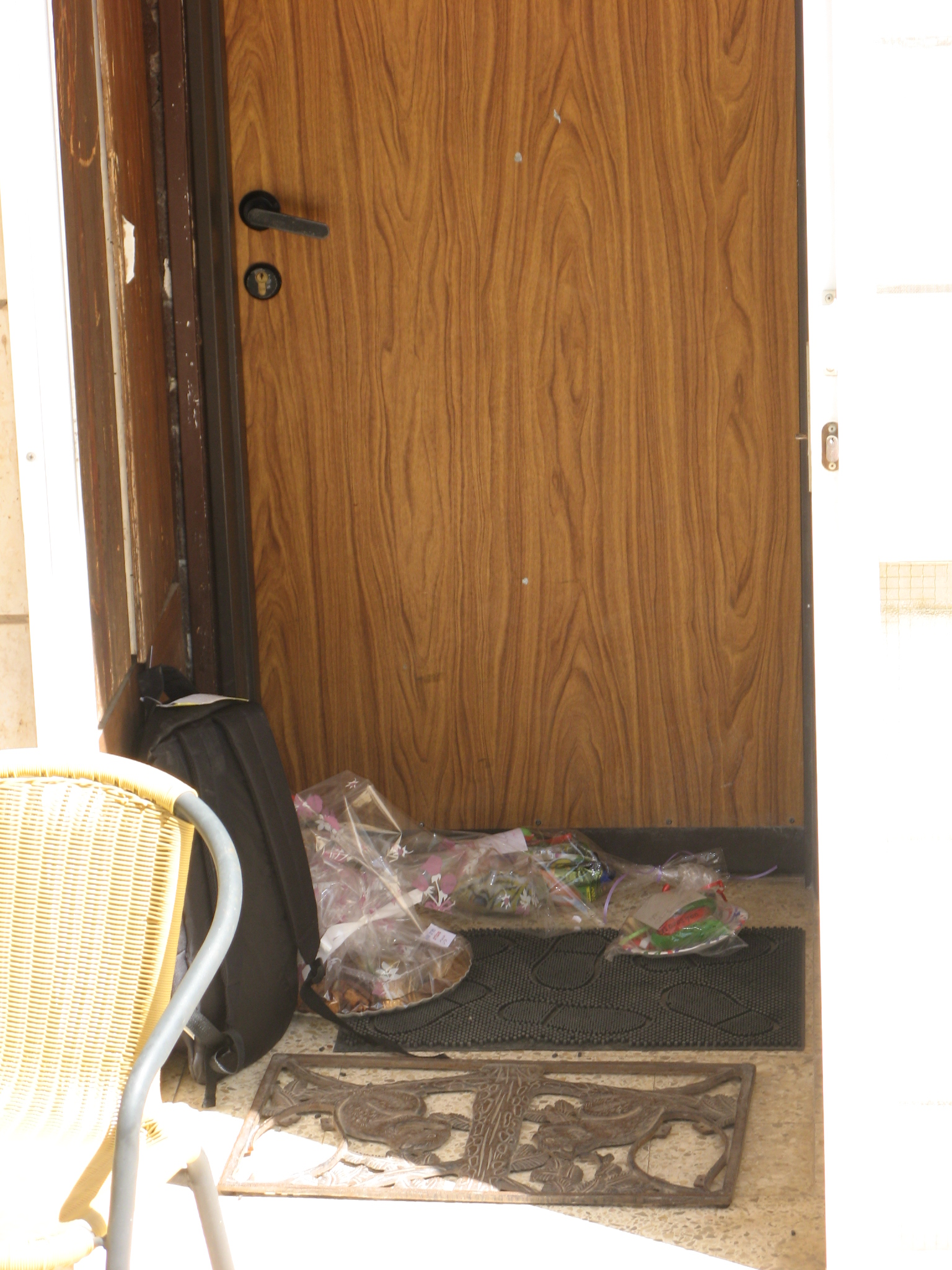 Mishloach Manot in front of a closed door